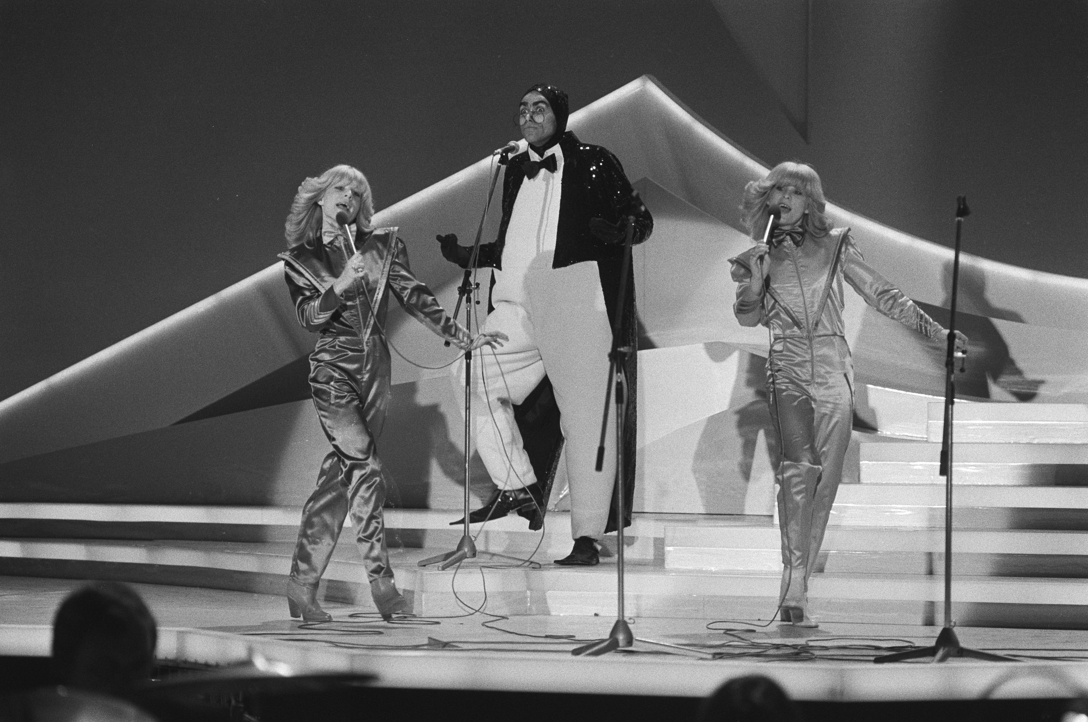 Sophie & Magaly during rehearsals for the Eurovision Song Contest 1980